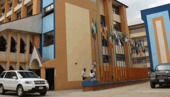 The University Auditorium at the takeoff campus of Rhema University